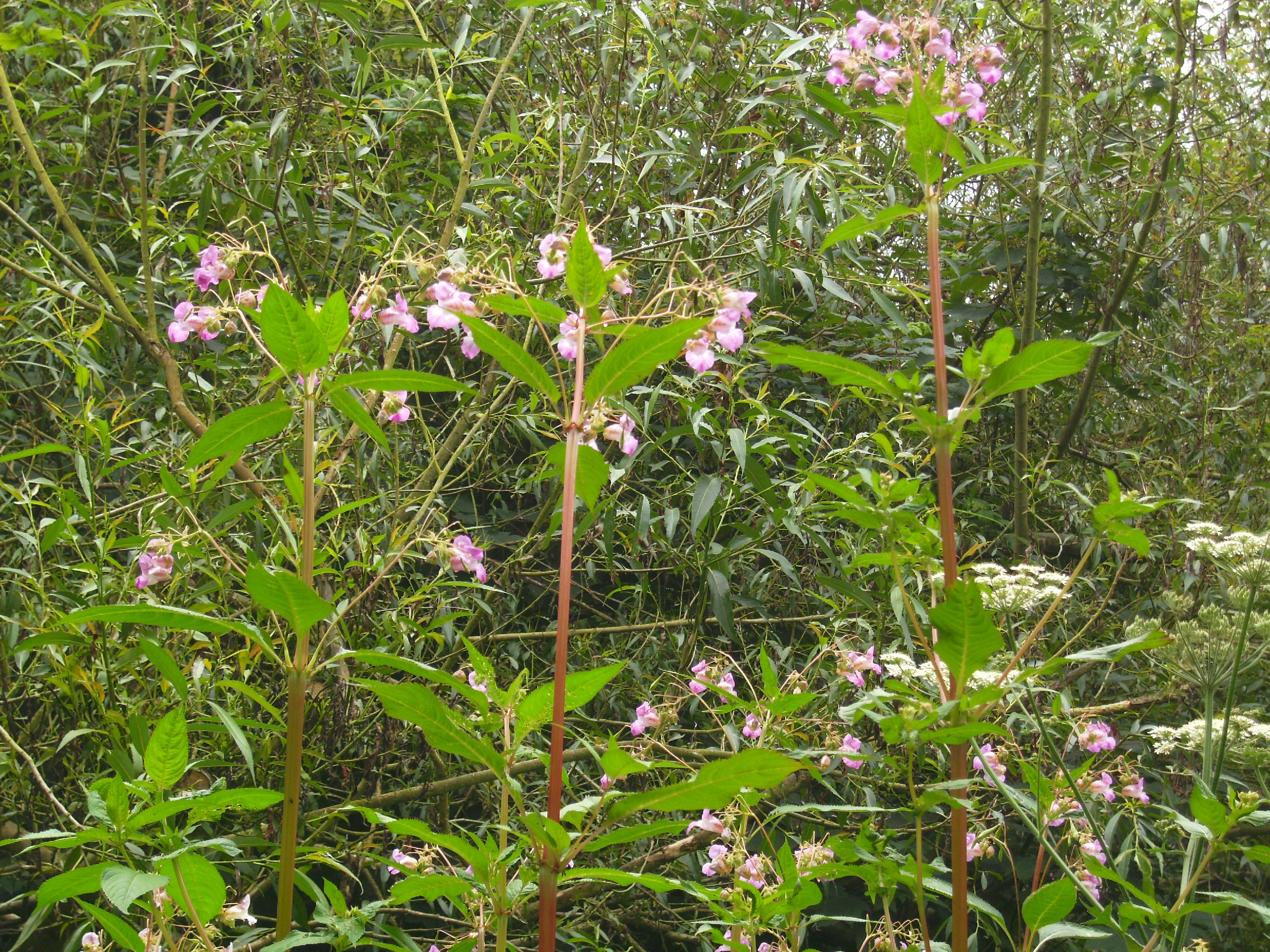 Himalayan Balsam growing on the banks of the Smestow, Wolverhampton, England.